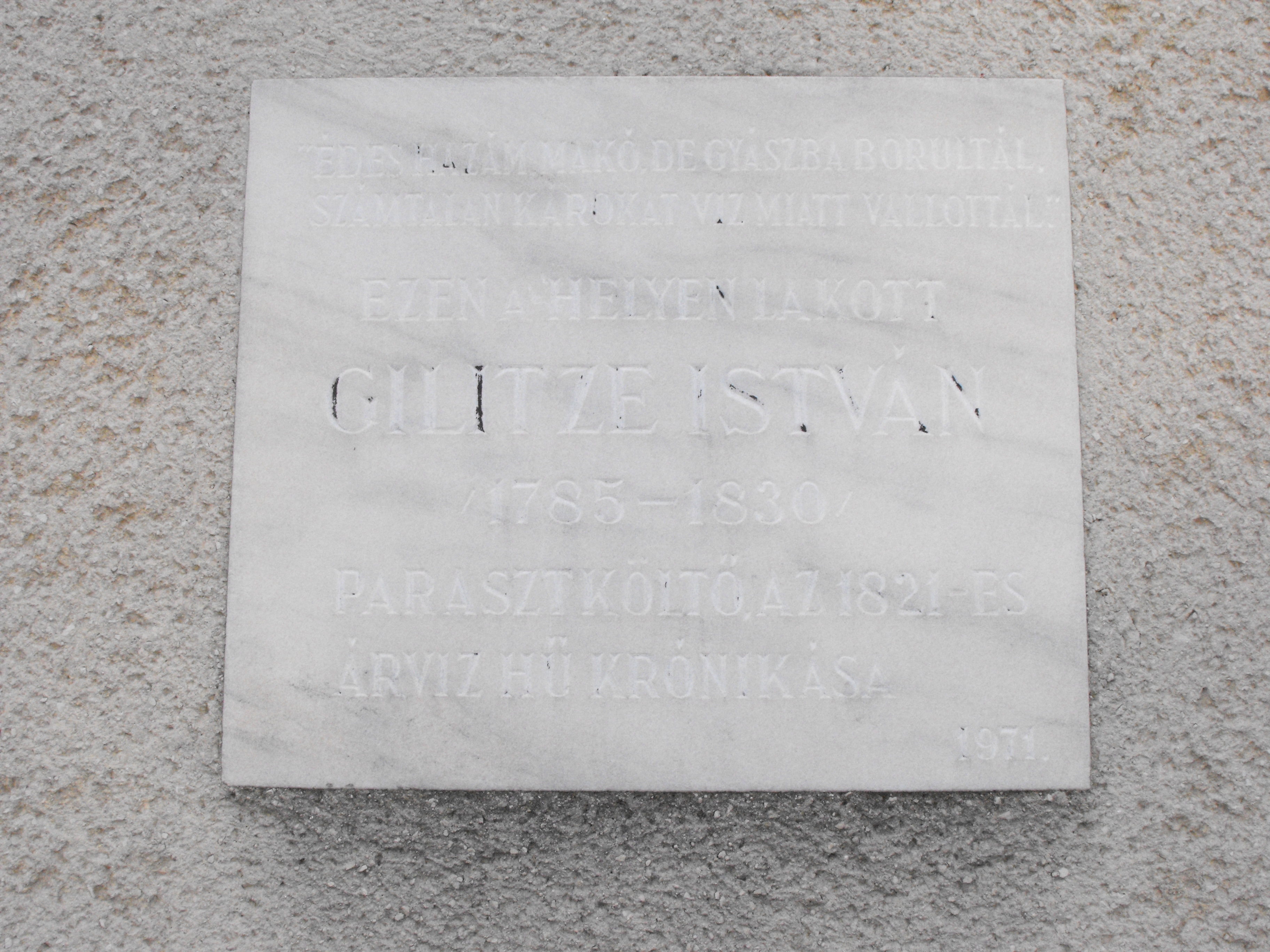 Memorial tablet of István Gilitze, poet with peasant origin in Makó, Hungary.